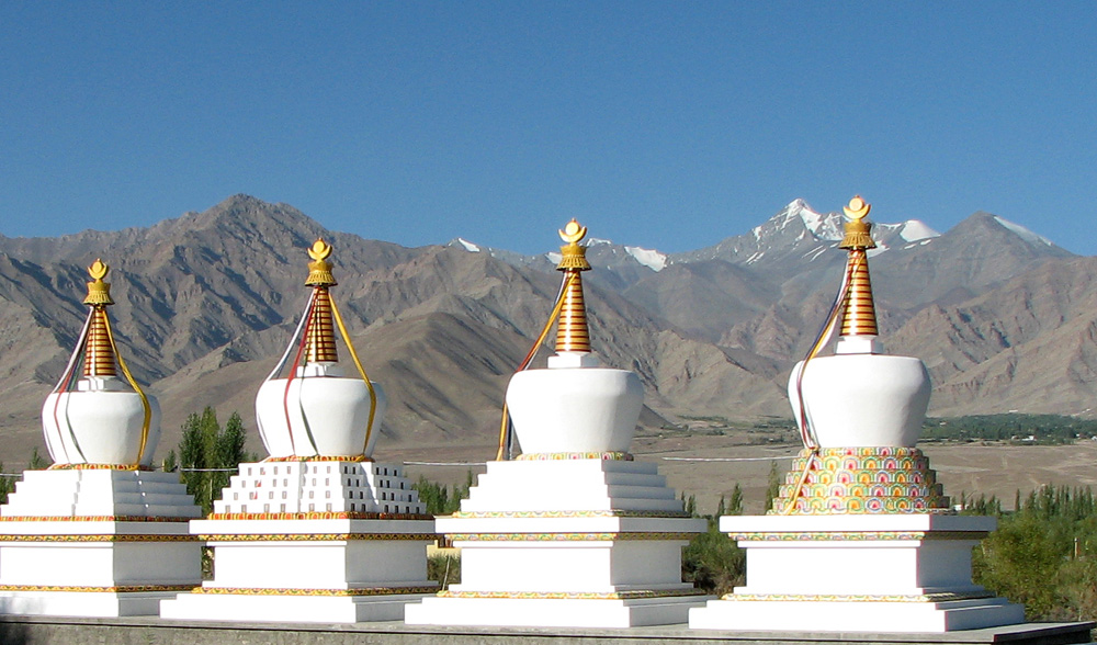 Stupas @ Choglamsar, Stok mountain range in the background. View On Black